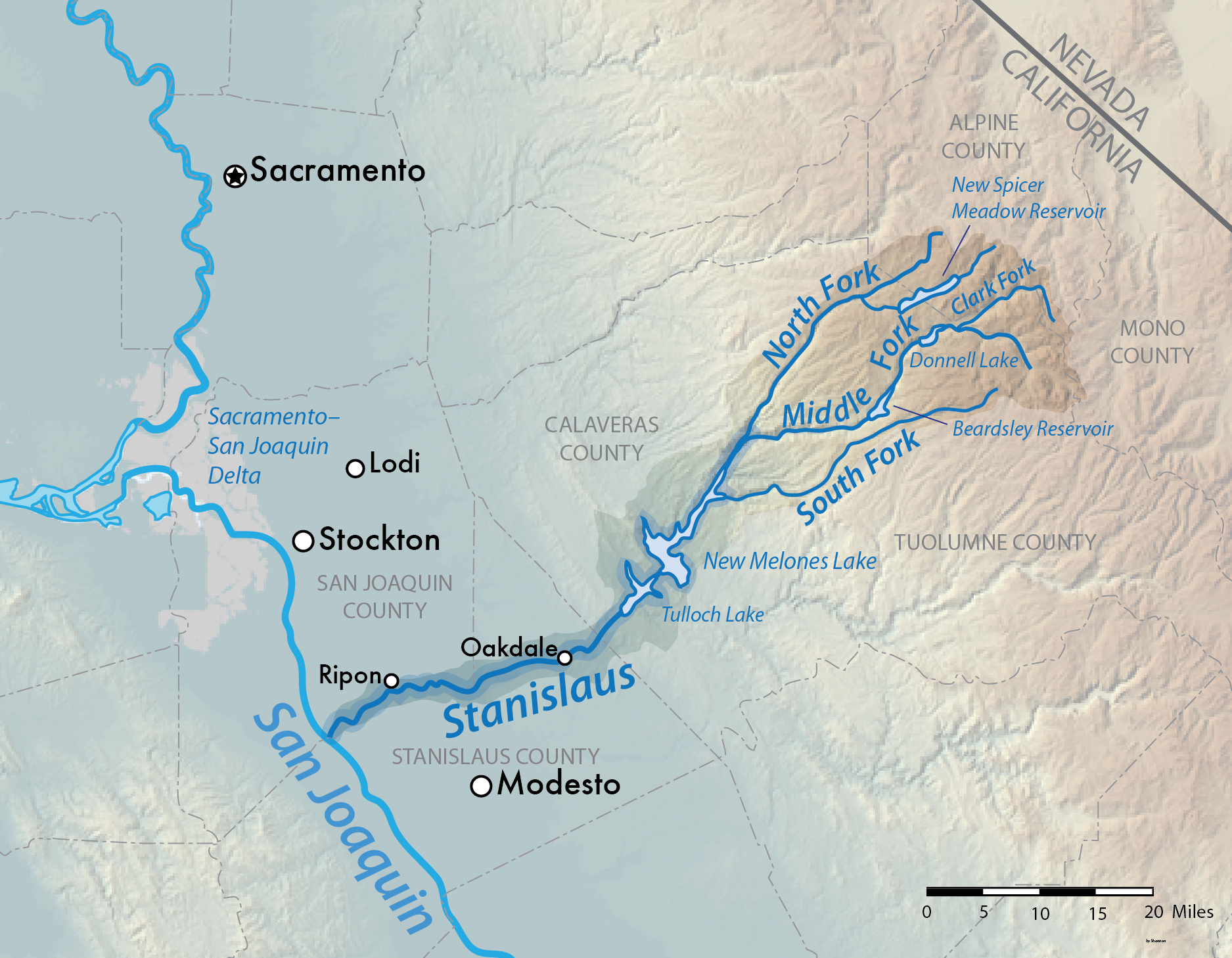 Map of the Stanislaus River in Central California, USA. Shaded relief from US Geological Survey data.